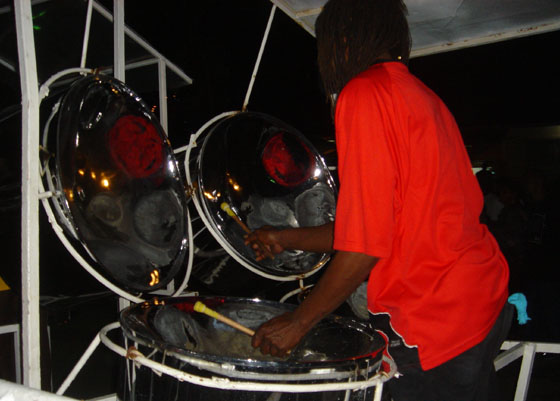 The pannist of Trinidad and Tobago plays steel-pan named "quadrophonic".